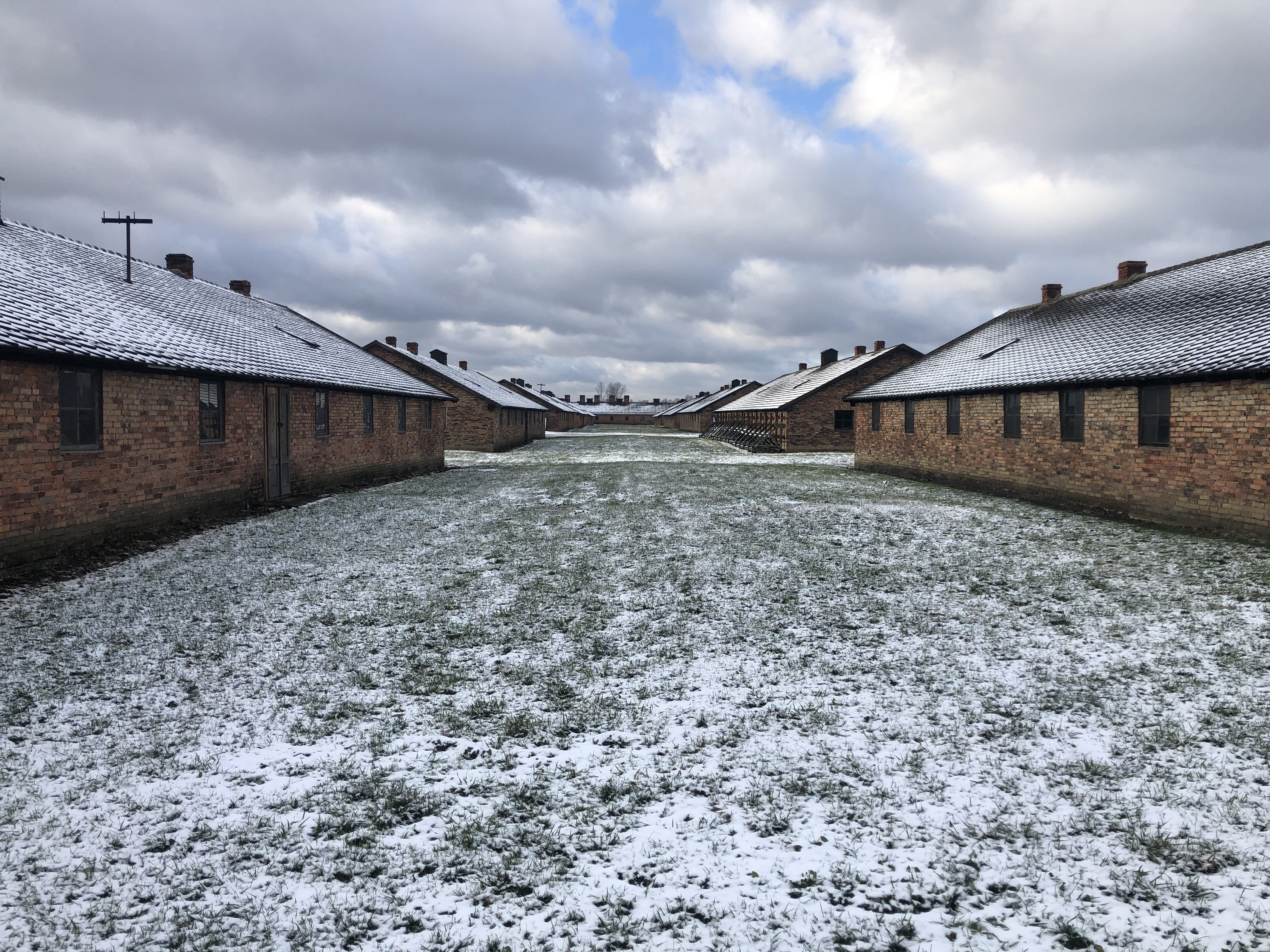 Brick prisoners' barracks at the site of the former Auschwitz II-Birkenau camp. Inside each of the buildings between 700-1000 prisoners slept. Brick barracks were the earliest constructions in Birkenau. They were constructed of bricks and wood from demolished houses that had belonged to Polish farmers forcibly expelled by the Germans from nearby villages in the spring of 1941 during the creation of the so-called 'Zone of Interest' of the camp